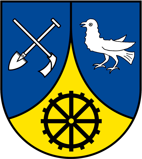 Coat of arms of Rödern